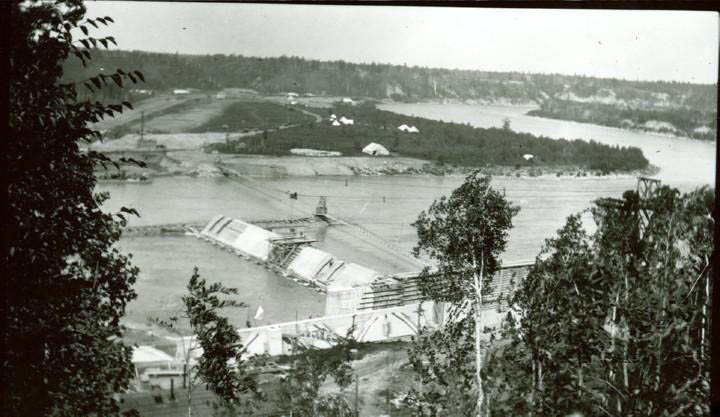 La Colle Falls hydroelectric power plant in Prince_Albert,_Saskatchewan during construction. The view is from the south bank.